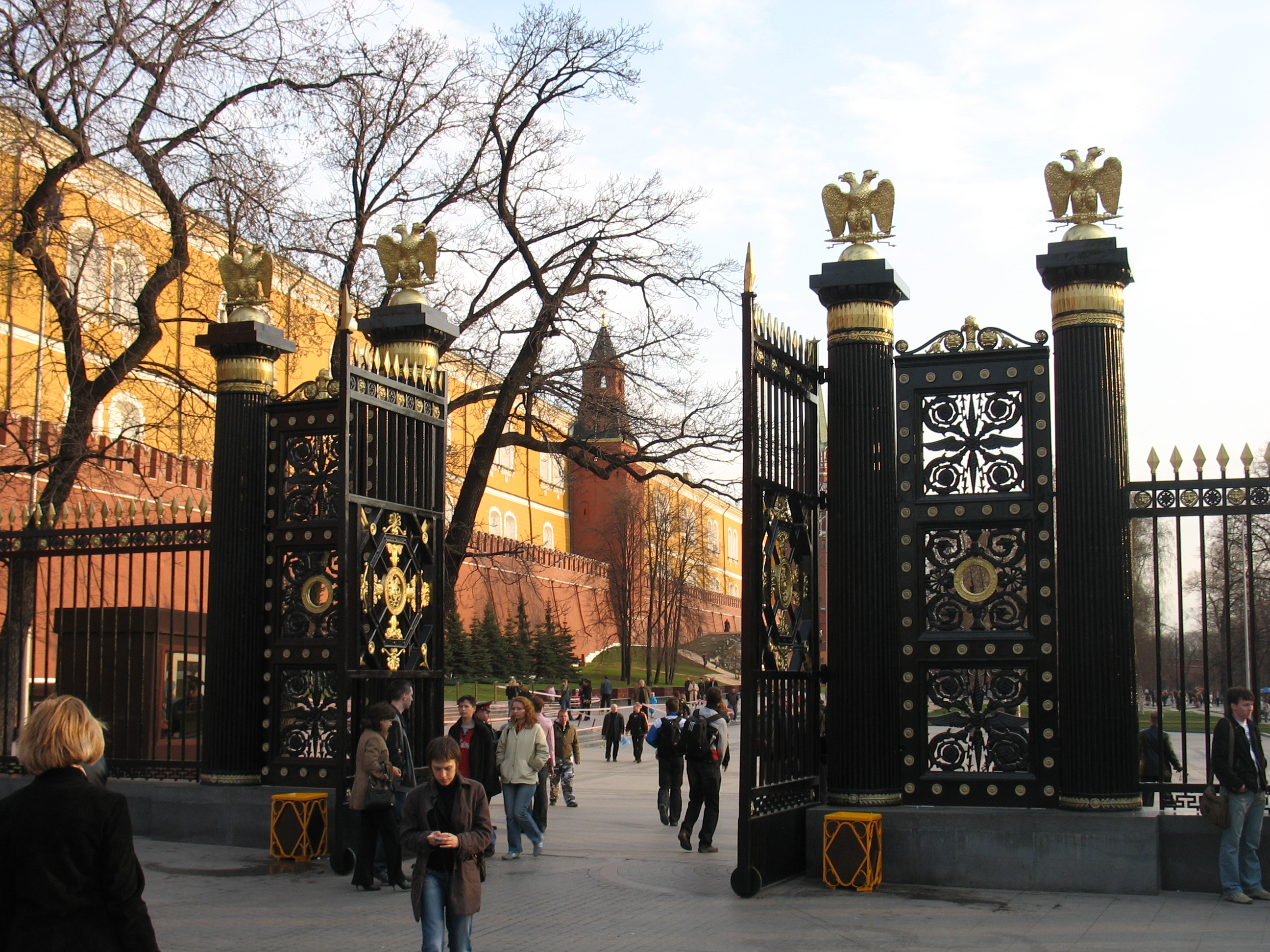 Alexander Garden Gates near from Moscow Kremlin